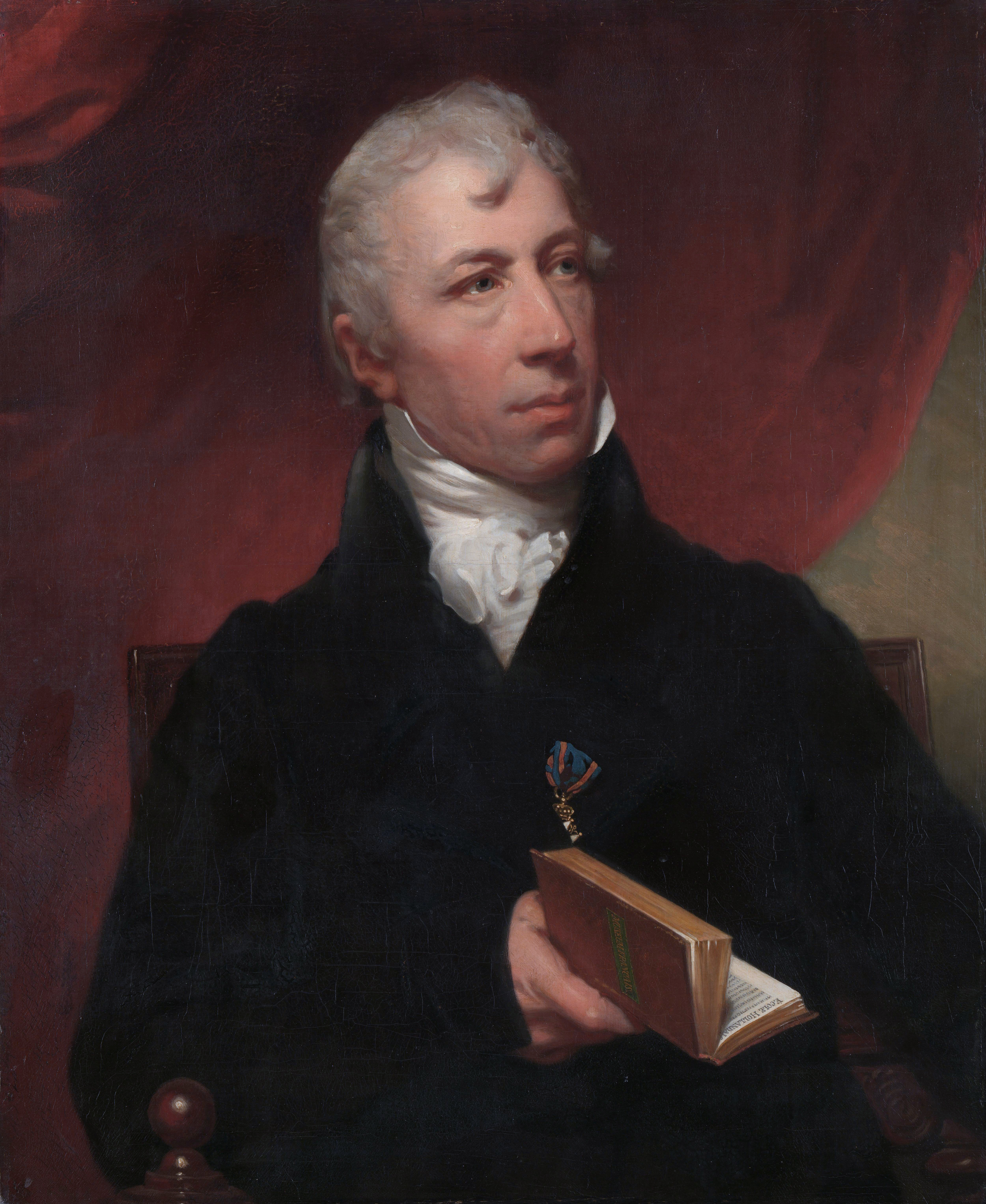 Cornelis Apostool (1762-1844) oil on canvas 73 x 53 cm 1816 - 1834